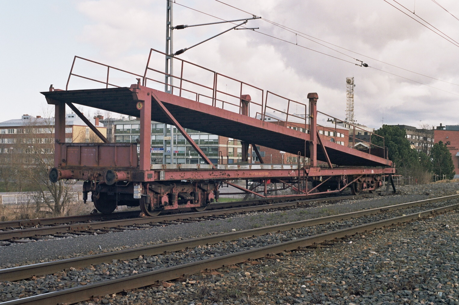 An old railway wagon close to the railway station of Oulu in Finland. The wagon has been used for loading autoracks.